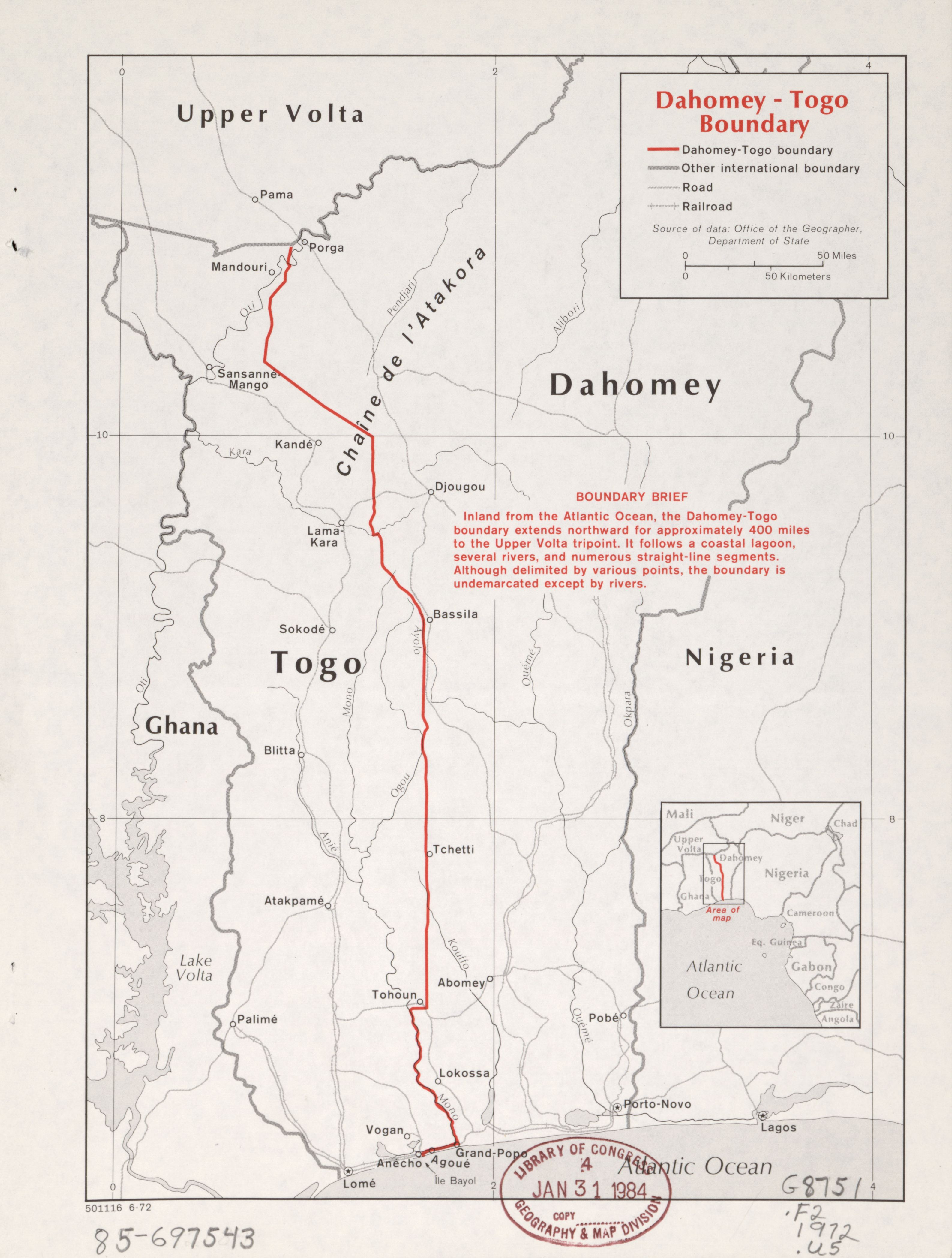 "501116 6-72." "Source of data: Office of the Geographer, Department of State." Includes note and key map. Available also through the Library of Congress Web site as a raster image.